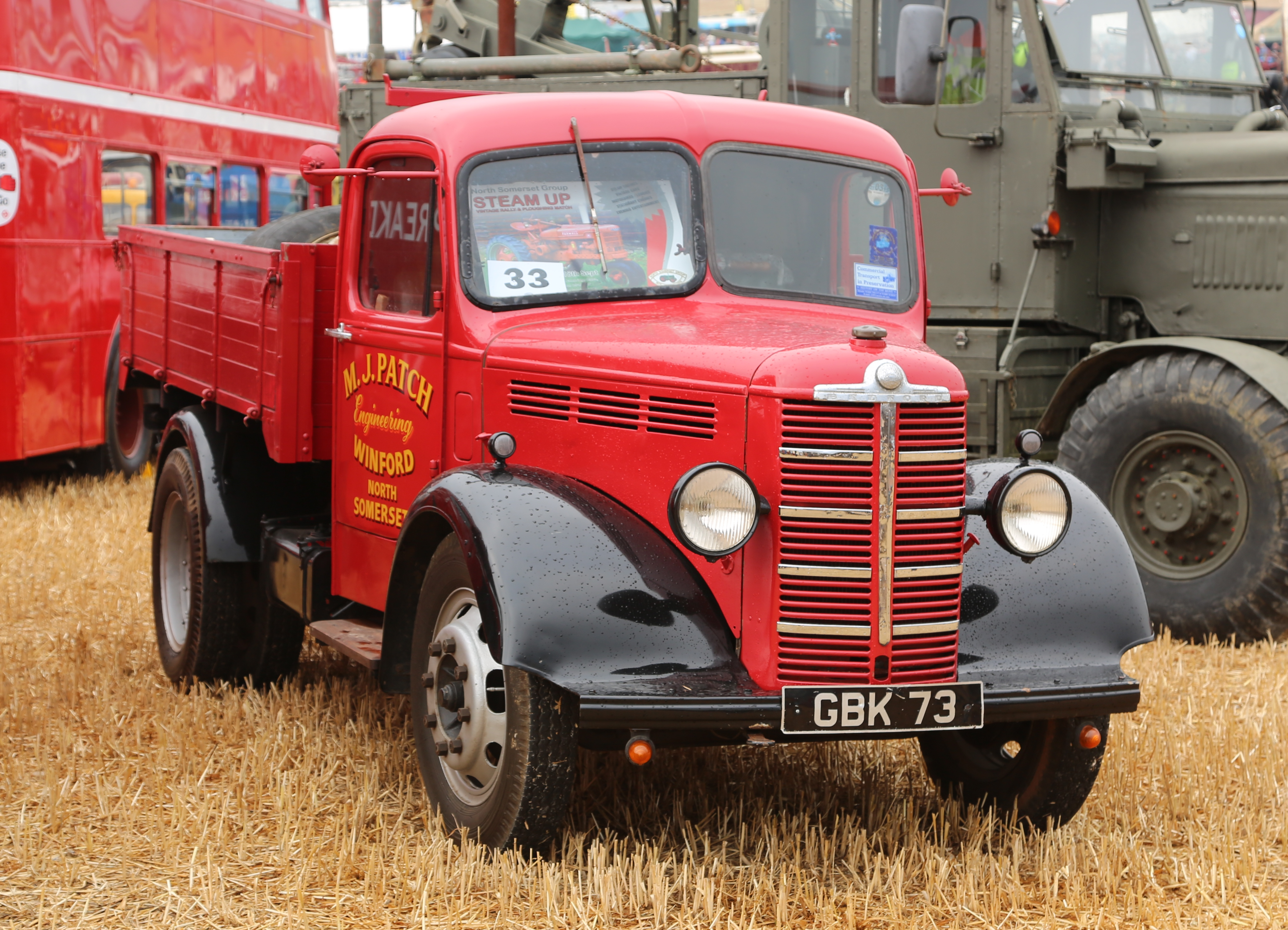 Photo of 1951 Bedford MSD flatbed